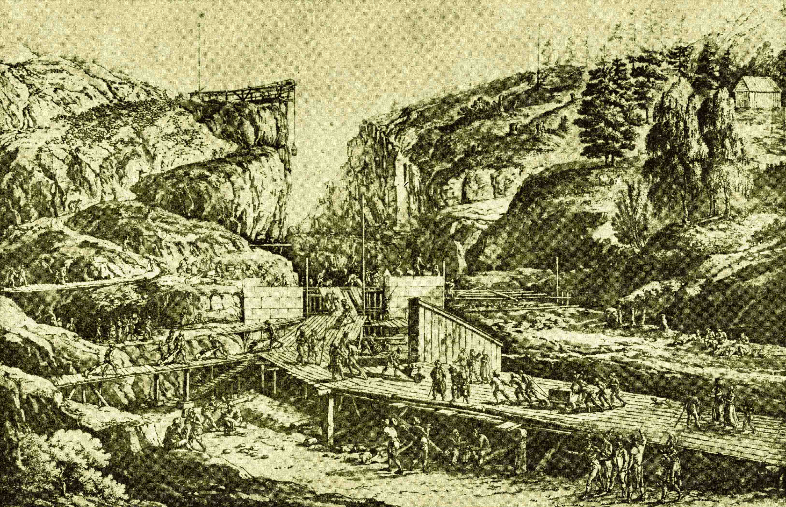 Work on the locks in Trollhättan 1798. Made by artist Louis Belanger (1736-1816)